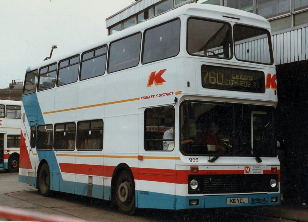 New to Yorkshire Coastliner in September 1992, it transferred to Keighley & District in about 1996.